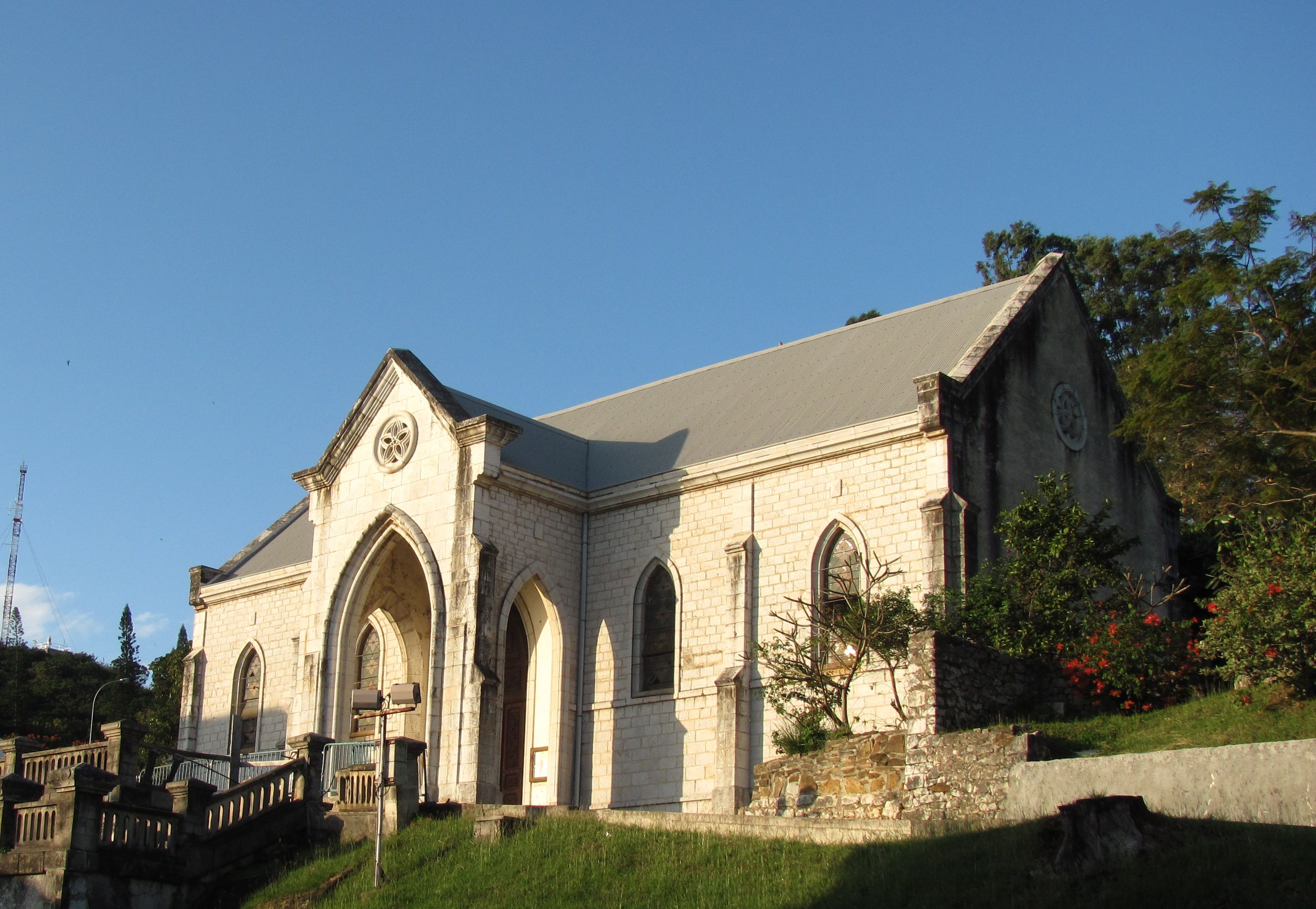 Protestant church, Nouméa, New Caledonia